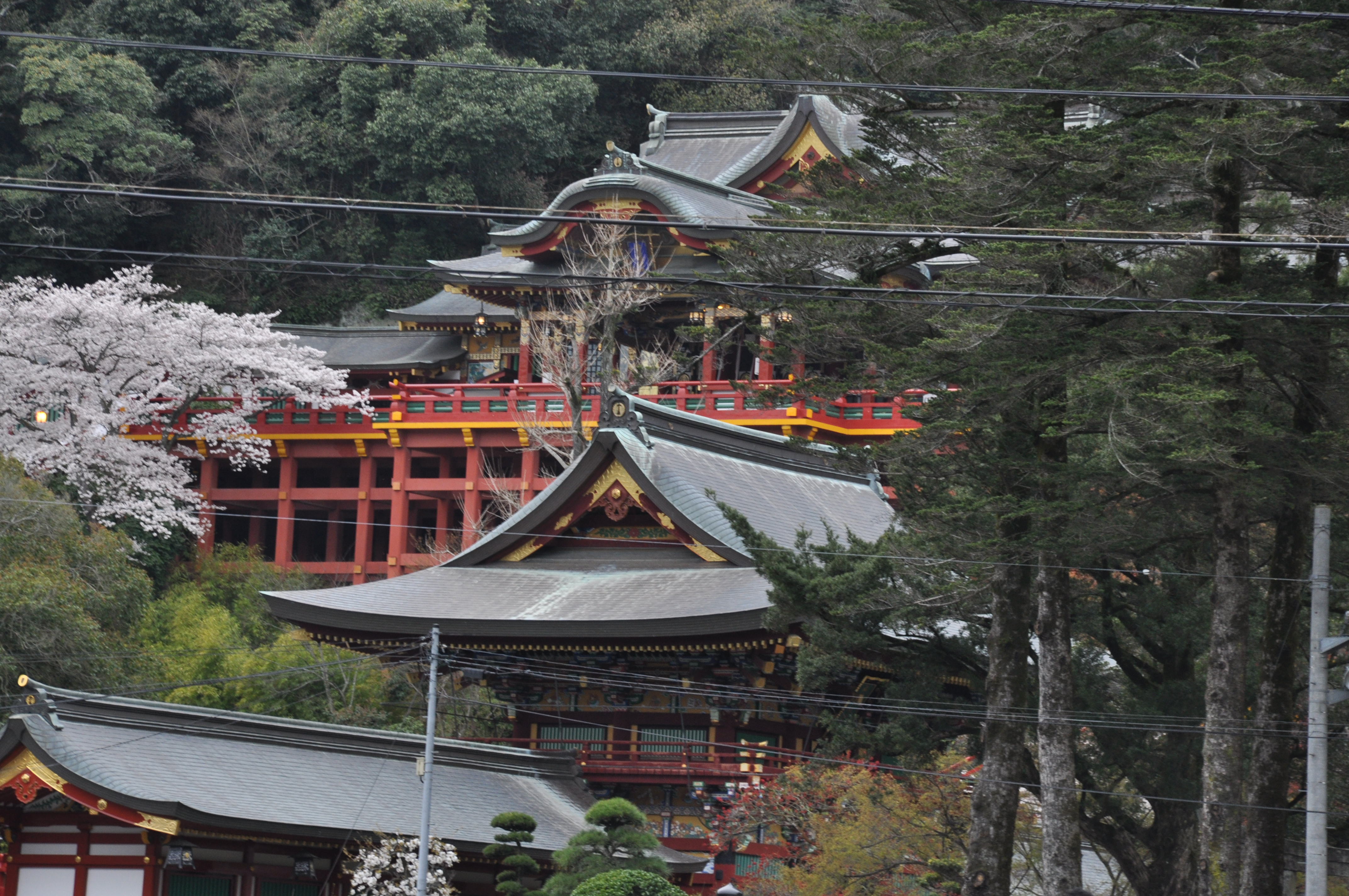 Yūtoku Inari Shrine, Kashima, Saga